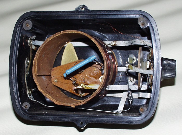 Radio "Detefon", manufacturer: PZT (Poland), 1930-1939